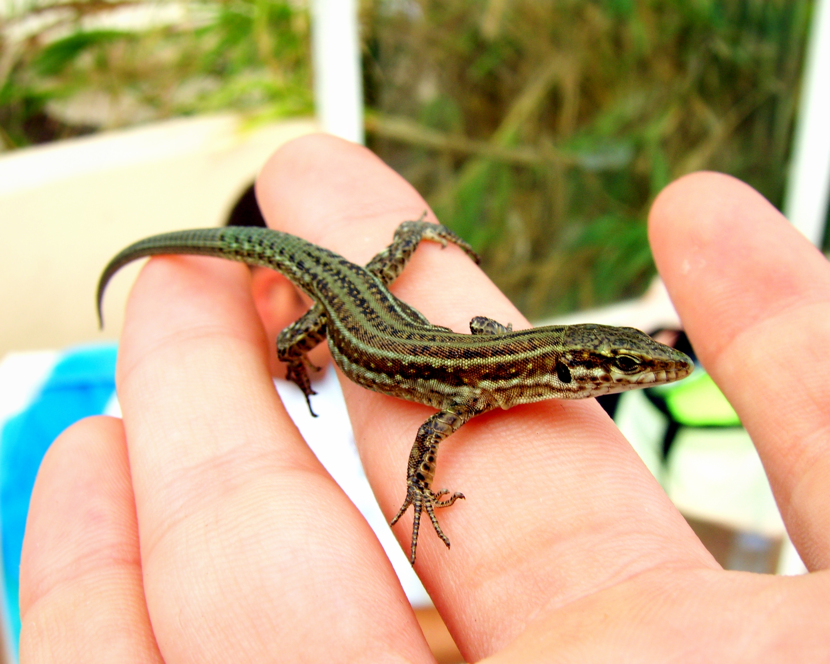 An unusually tame lizard that I managed to 'liberate' in my holiday in Ibiza. This one attempted a bid for freedom by jumping at one of the receptionists.